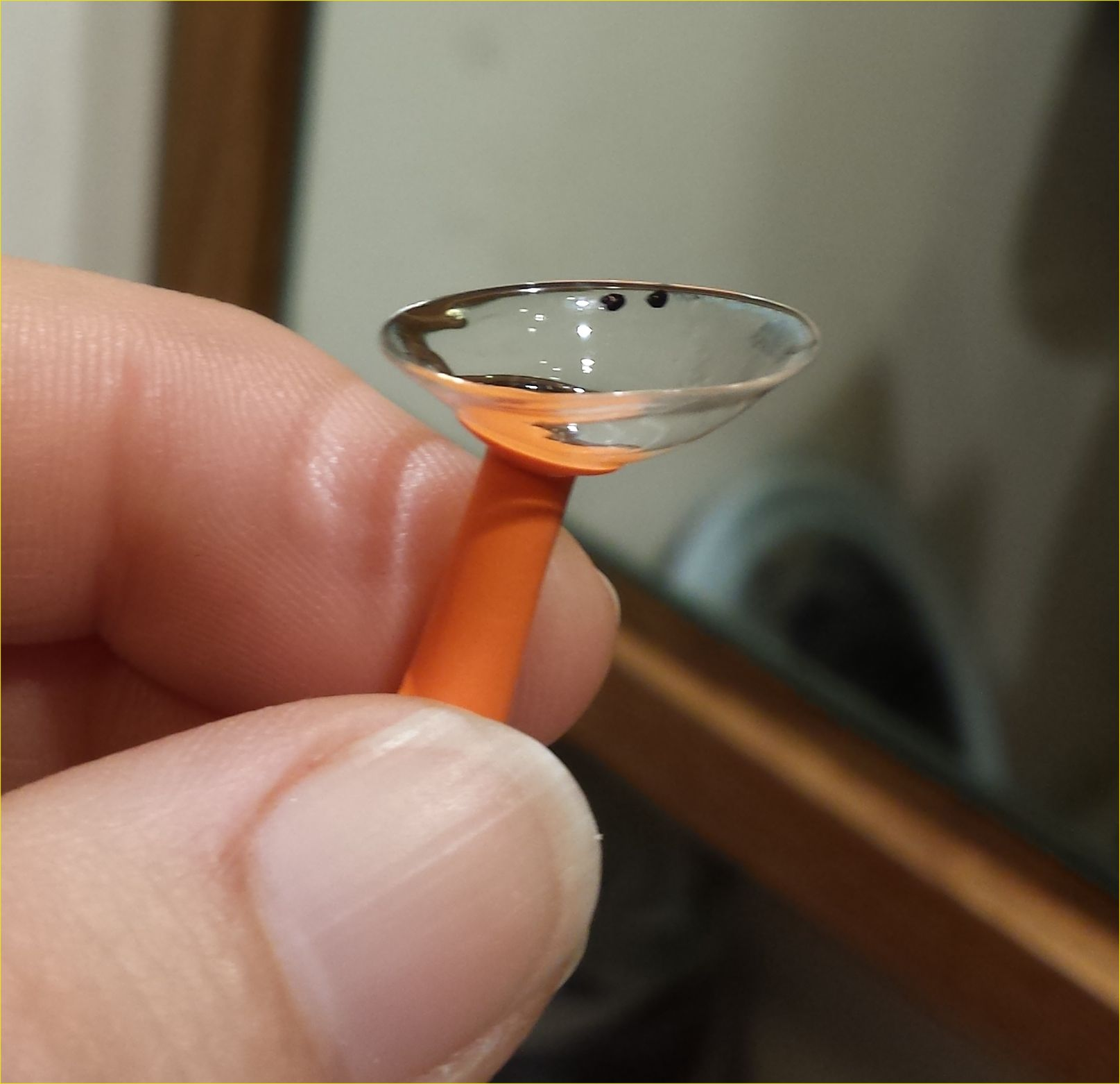 A scleral lens prescribed for a severe dry eye patient. Lens is seated on a removal plunger, unfilled, and for a left eye (denoted by 2 dots at the top).